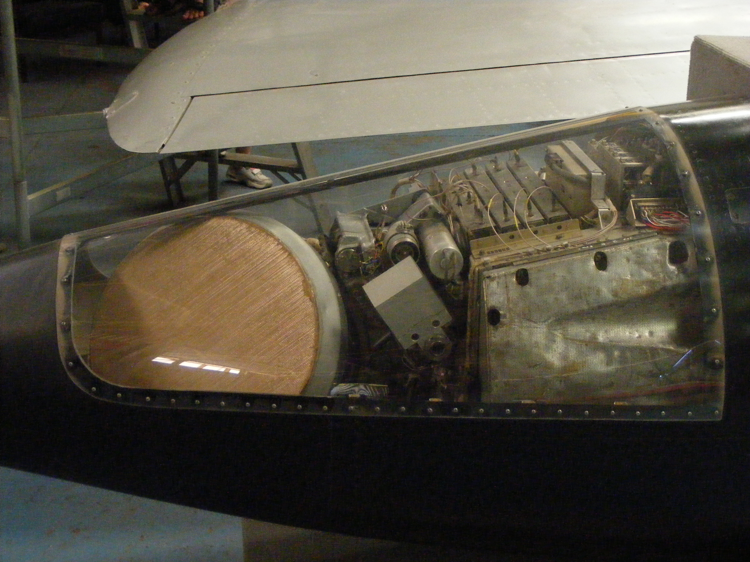 Dassault Mirage Cyrano 11 Radar on display at the the Classic Jets Fighter Museum, Parafield airport, Adelaide, South Australia. As used in Australian Mirage III RAAF aircraft